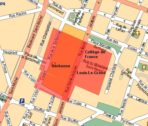 Map of Sorbonne Louis-Le-Grand : security area against demonstrators.